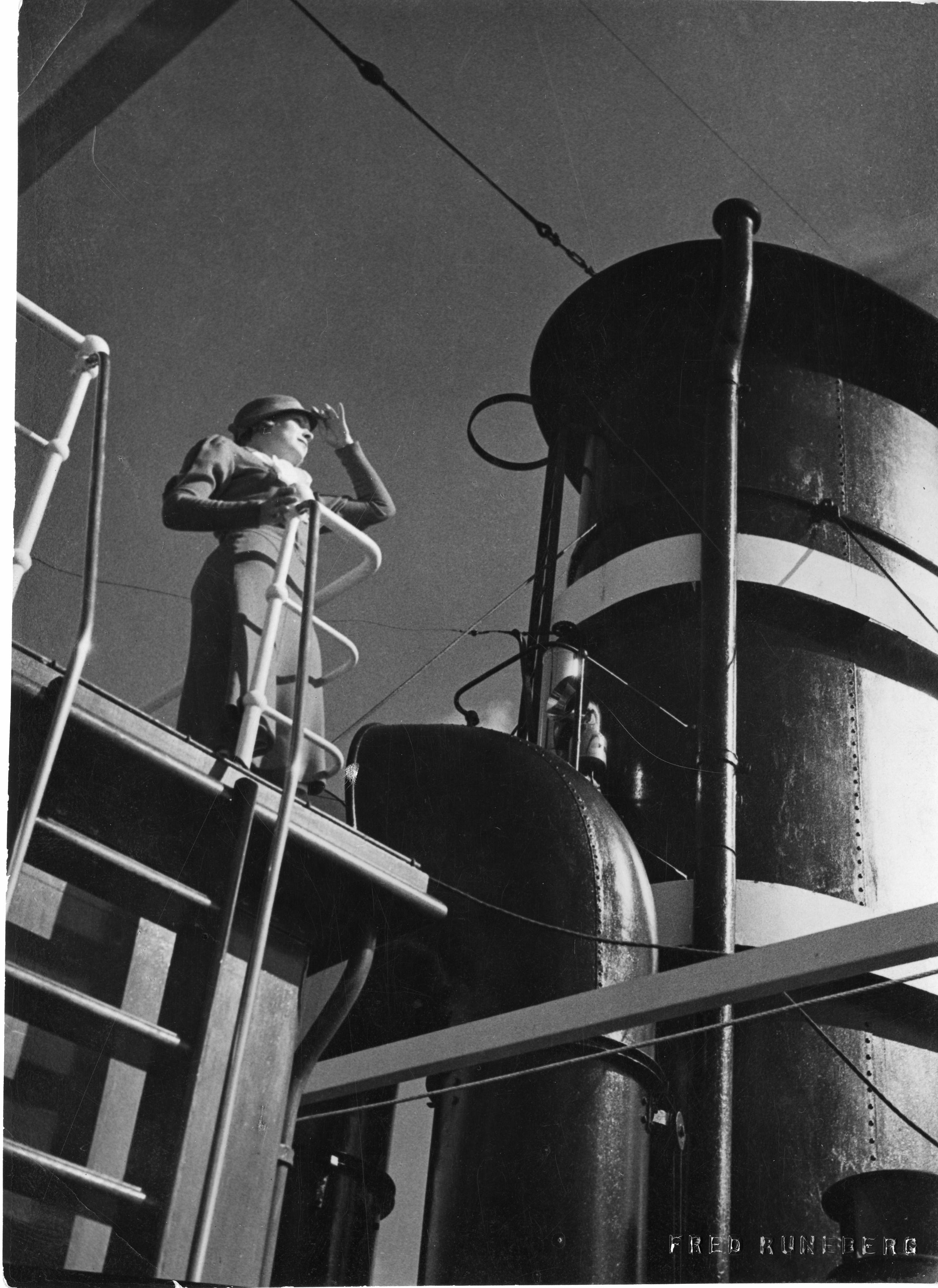 FÅA:s poster of a woman standing by a ship's funnel